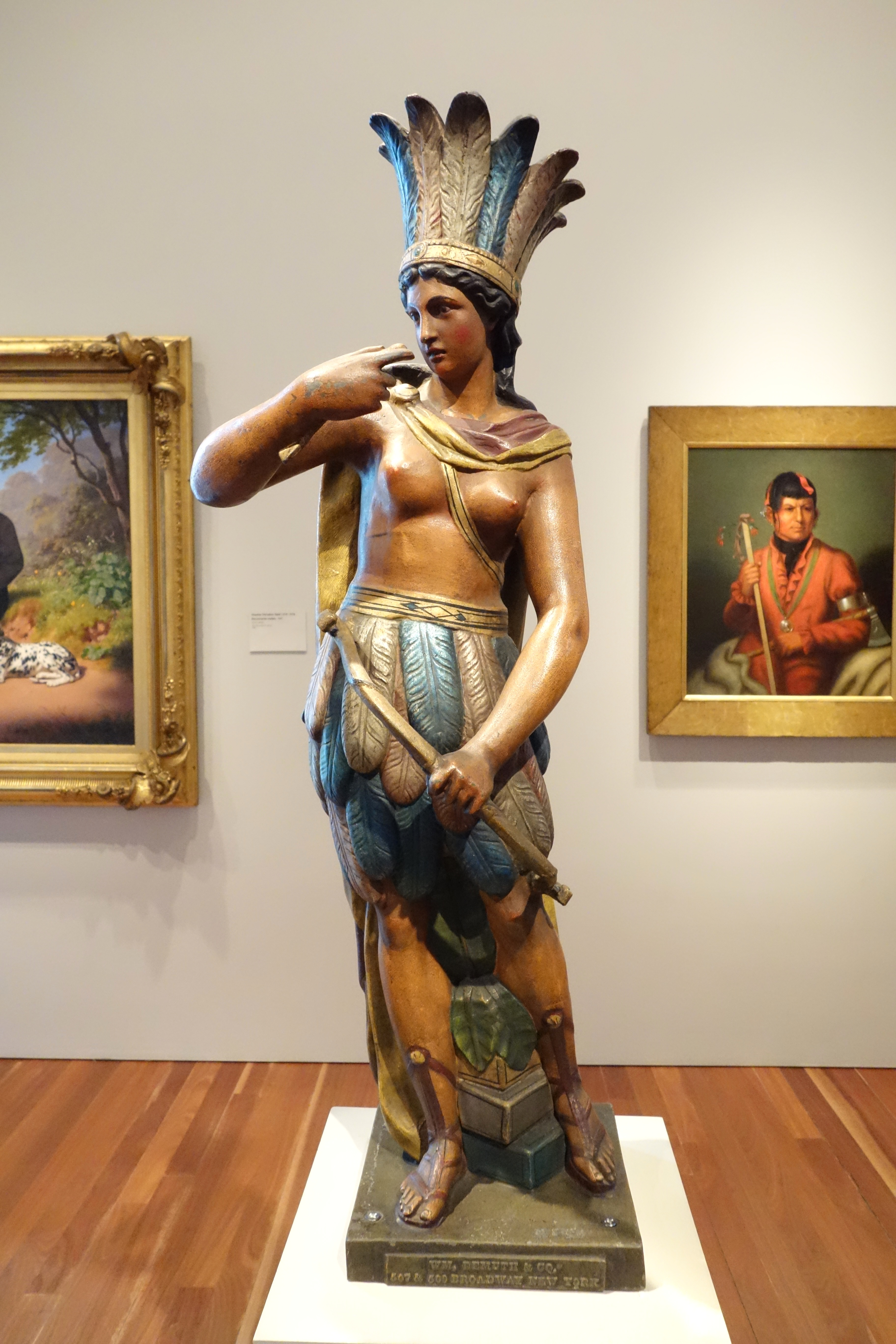 Exhibit in the De Young Museum, San Francisco, California, USA. This artwork is in the public domain because it was first published in the United States before 1923.